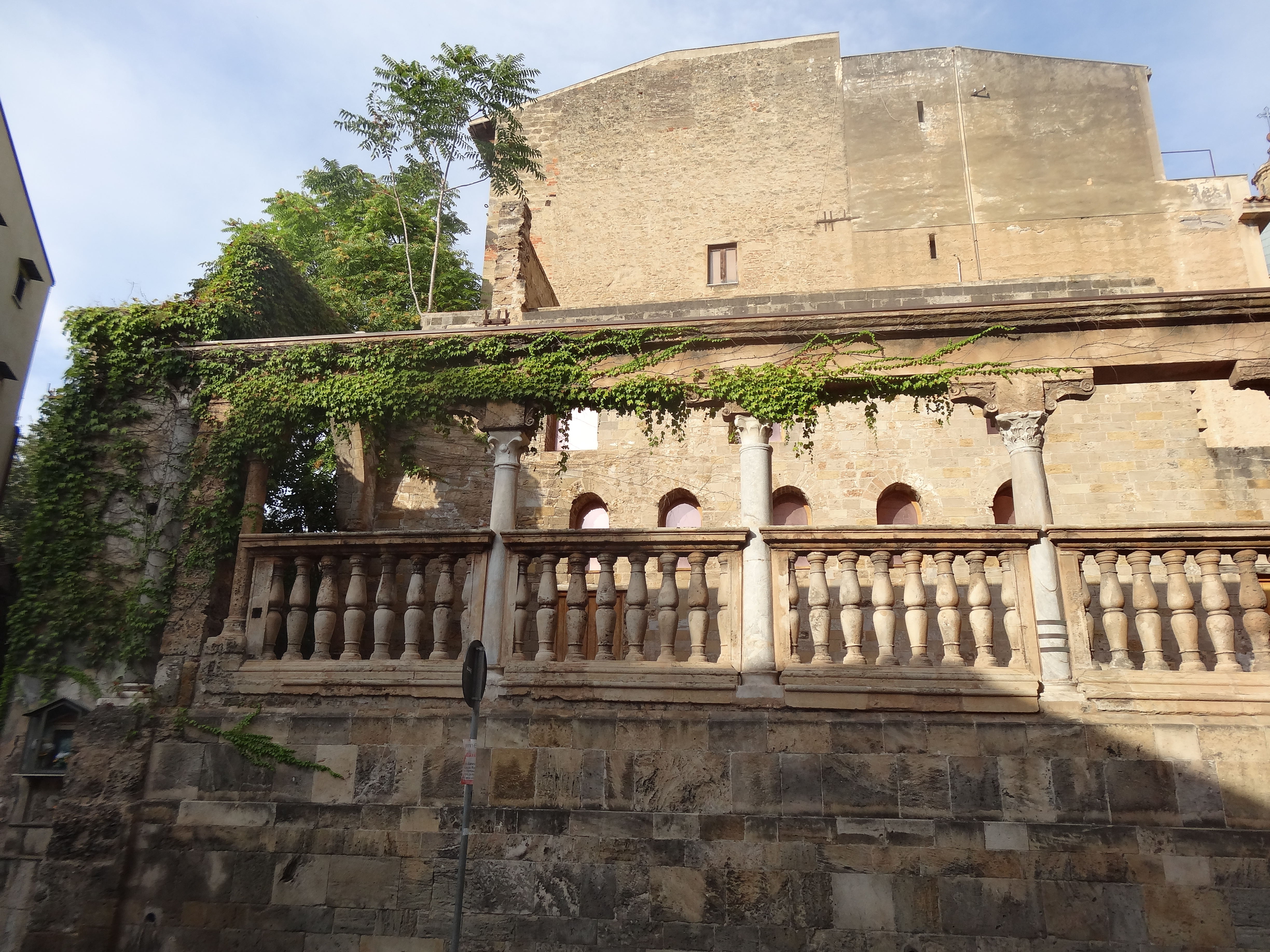 balcone incoronazione palermo